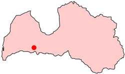 Location map of Auce city, Latvia.